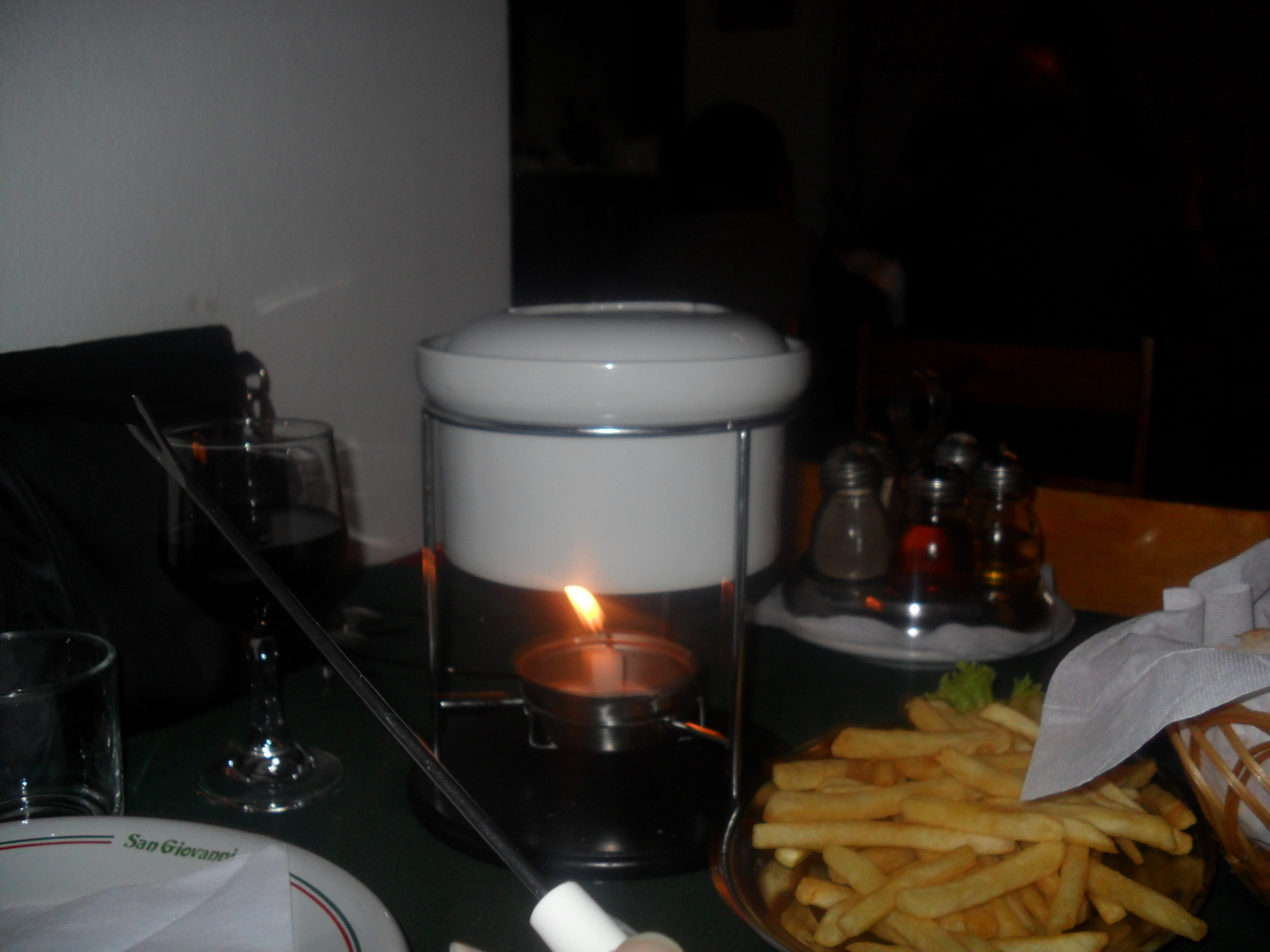 Fondue